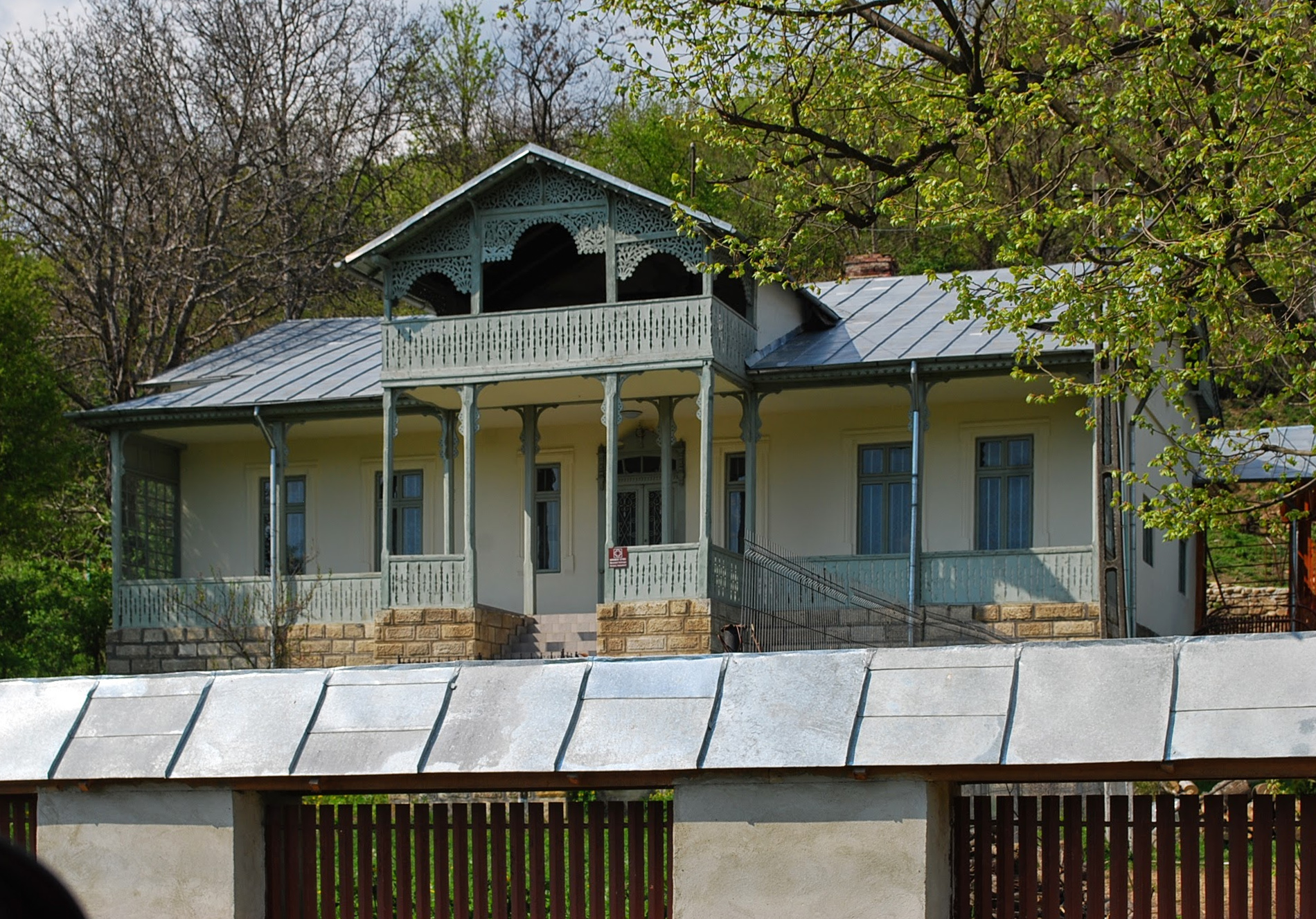 Săseanu house in Bâscenii de Jos, Calvini commune, Buzău County, RomaniaRomână: Casa Săseanu din Bâscenii de Jos, comuna Calvini, județul Buzău, România